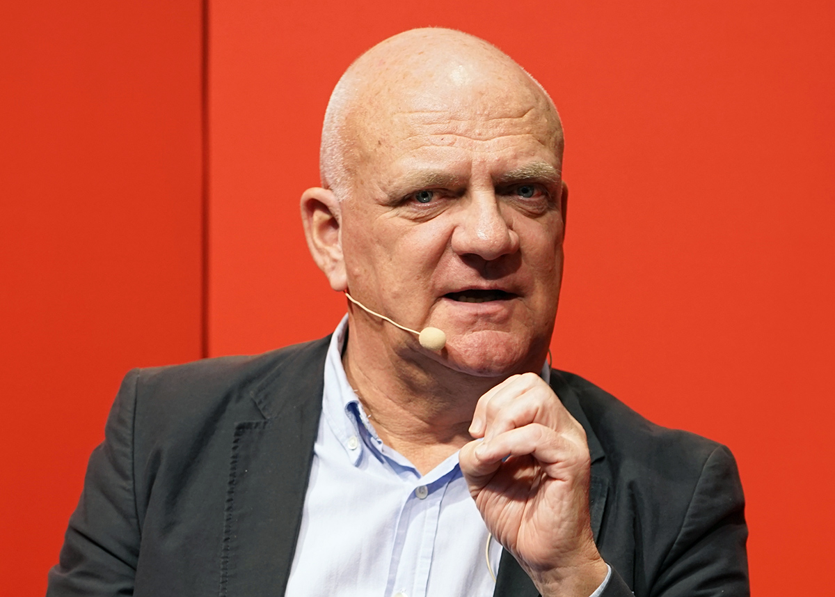 Flemming Toft - Danish sports journalist and writer at the Copenhagen Book Fair "BogForum 2015", Copenhagen, Denmark